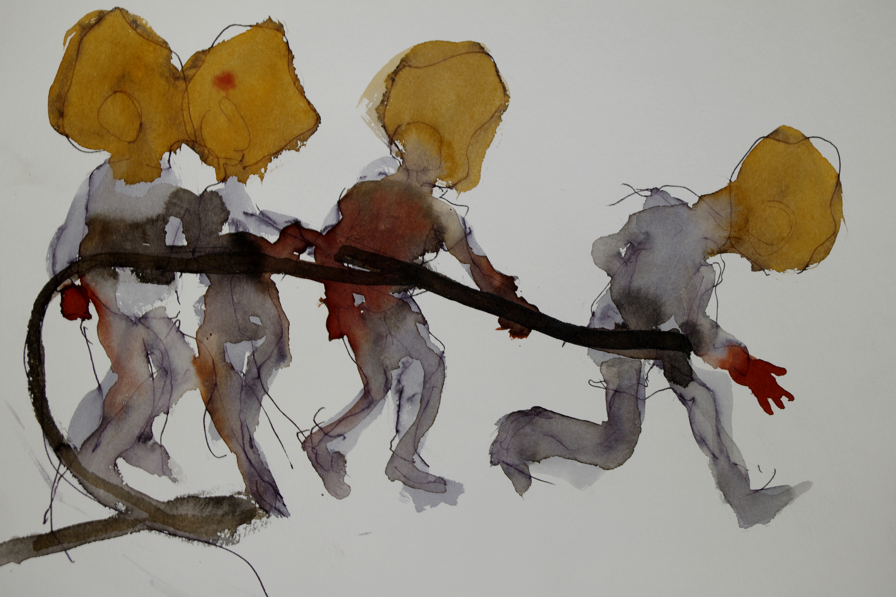 WikiAfrica Art - A site specific artwork for Wikipedia: Yassine Balbzioui